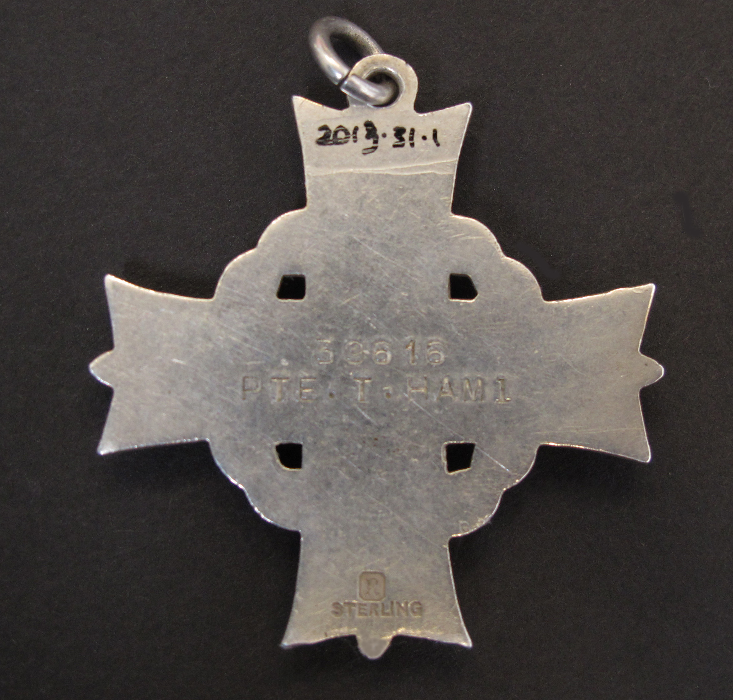 Memorial Cross, WW2 Memorial Cross awarded to next-of-kin of Private Tuhura Hami, 28 (Maori) Battalion who died on active service 19th October 1941 in Greece. a Cross patonce in silver over a laurel wreath, at the end of the upright a crown; at the foot and at the end of either arm a fern leaf; in the centre the royal cipher “GRVI”. Medal originally issued with a purple ribbon missing parts- ribbon markings- medal named verso- 39616 - PTE. T. HAMI silver mark verso- R - STERLING